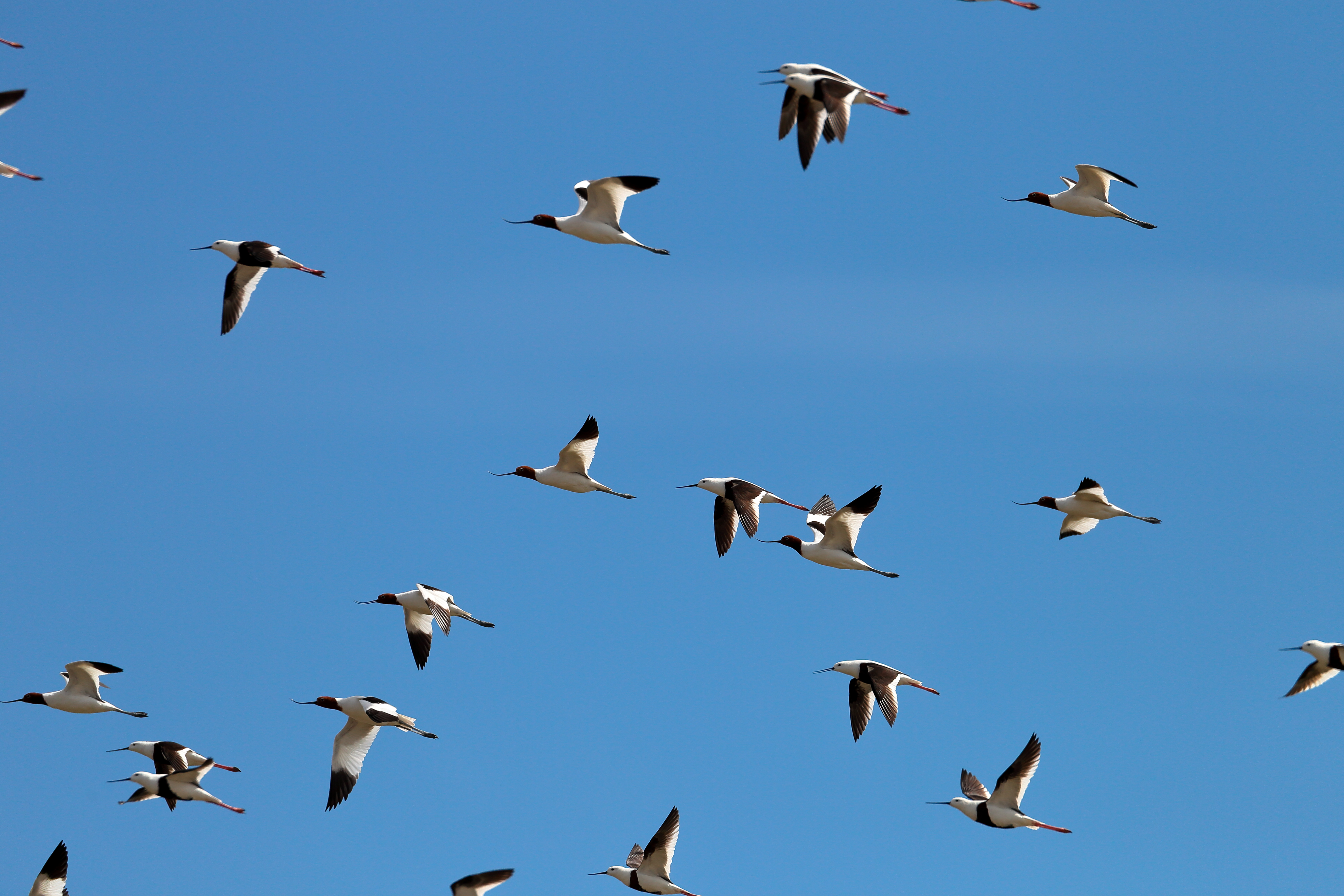 Lake Burrumbeet. Victoria.